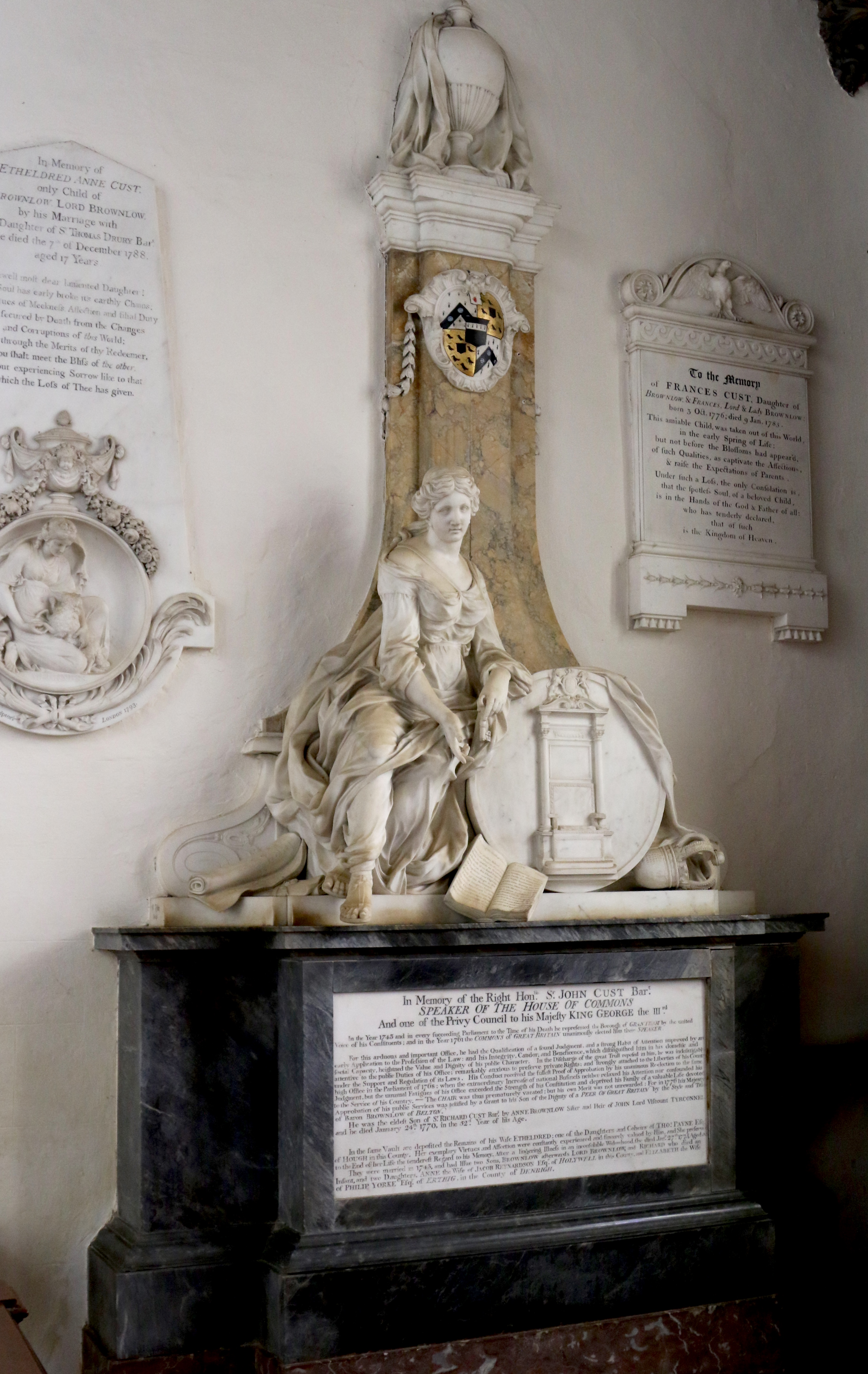 Monument in Belton Church, Lincolnshire, to Sir John Cust, 3rd Baronet PC (29 August 1718 – 24 January 1770) of of Belton House near Grantham in Lincolnshire, Speaker of the House of Commons from 1761 to 1770. Arms: Cust quartering Brownlowe with inescutcheon of pretence of Payne, for his heiress wife. ‘’Or, an escutcheon between eight martlets sable’’ (Brownlow) ’’Sable, a fess ermine in chief three crosses patée fitchée argent’’ (Payne) ‘’Ermine, on a chevron sable three fountains proper’’ (Cust)